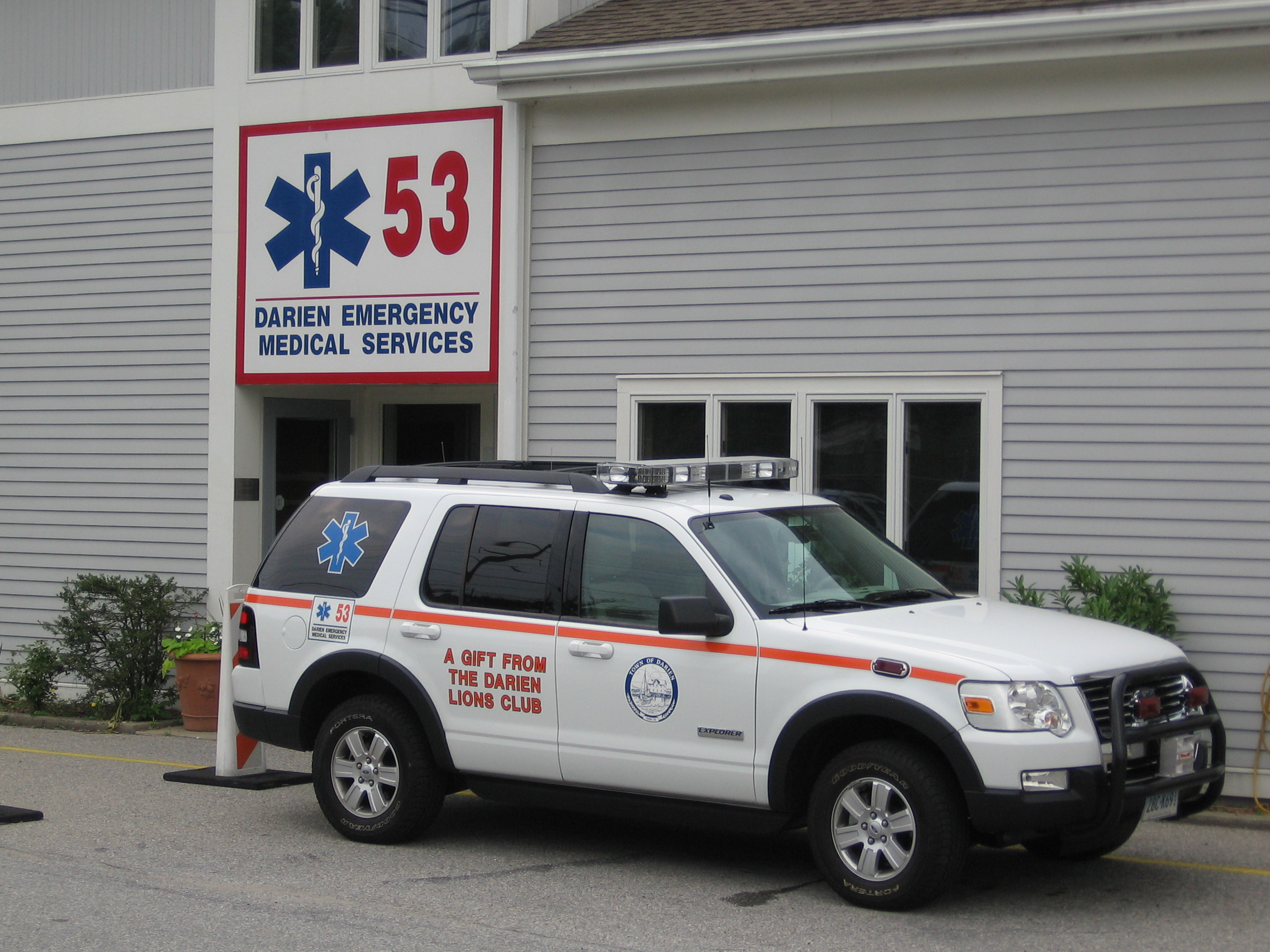 Front of Darien EMS-Post 53 headquarters, with an emergency vehicle outside.